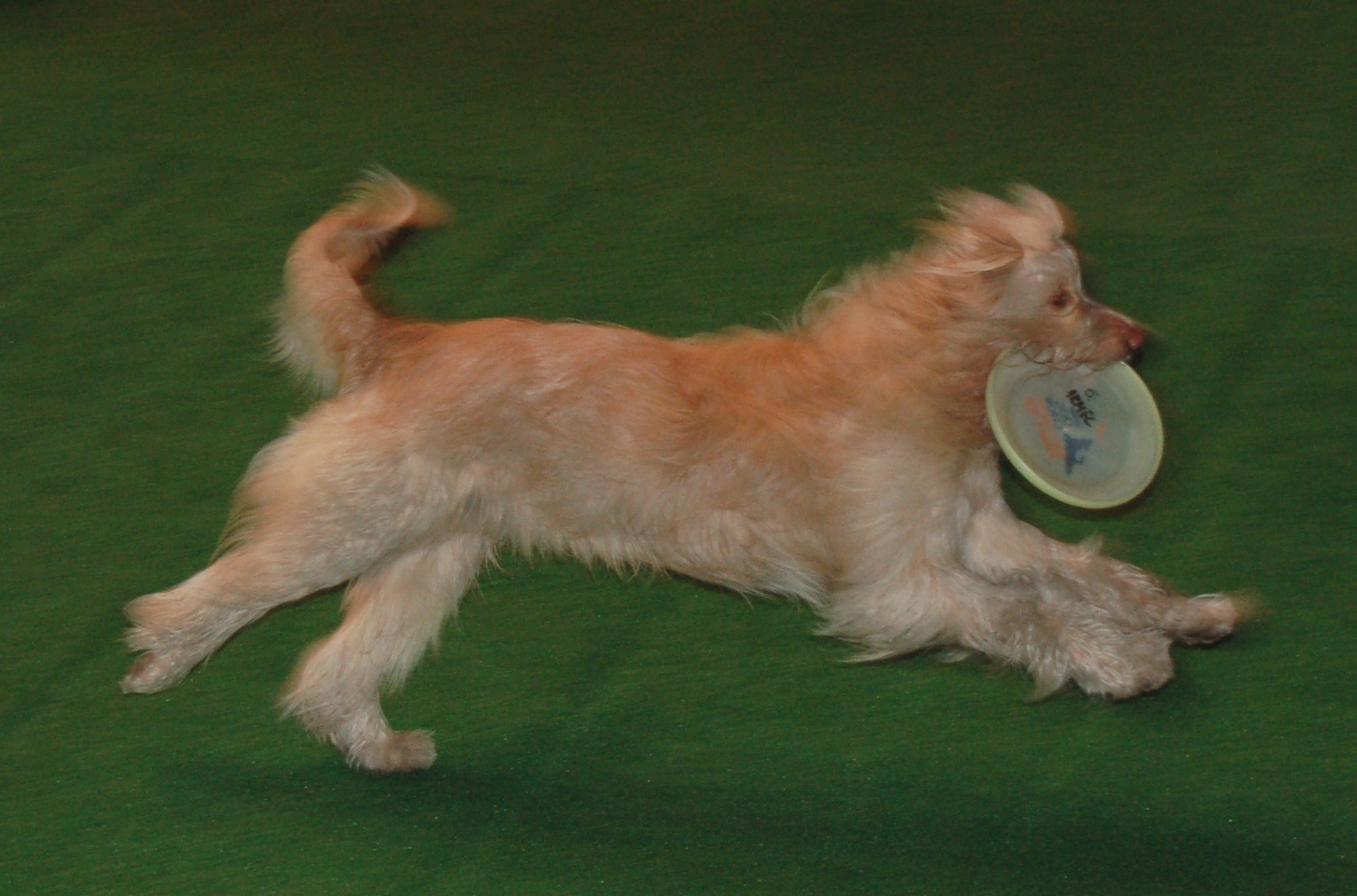 Catalan Sheepdog during frisbee, dogs show in Katowice, Poland